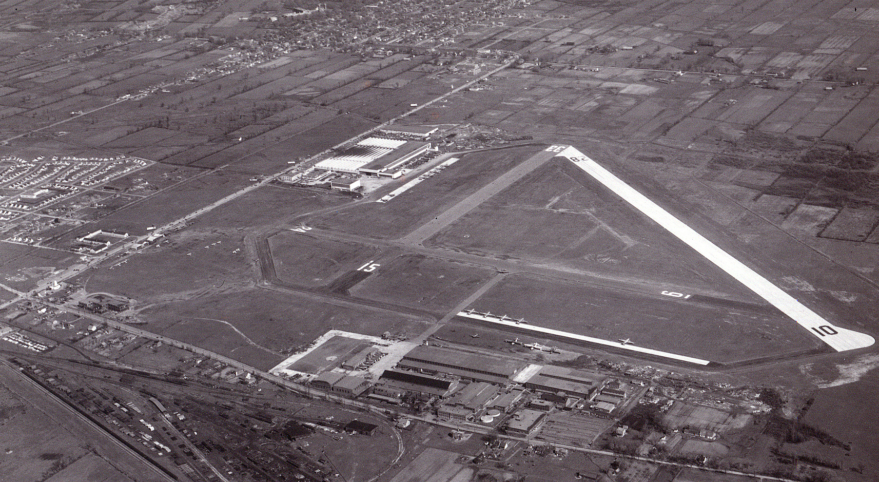 Cartierville airport in Saint-Laurent, Quebec. The Norvick wartime housing can be seen on the left, the Canadian Vickers factory in the center and the Saint-Laurent's city center in the background.